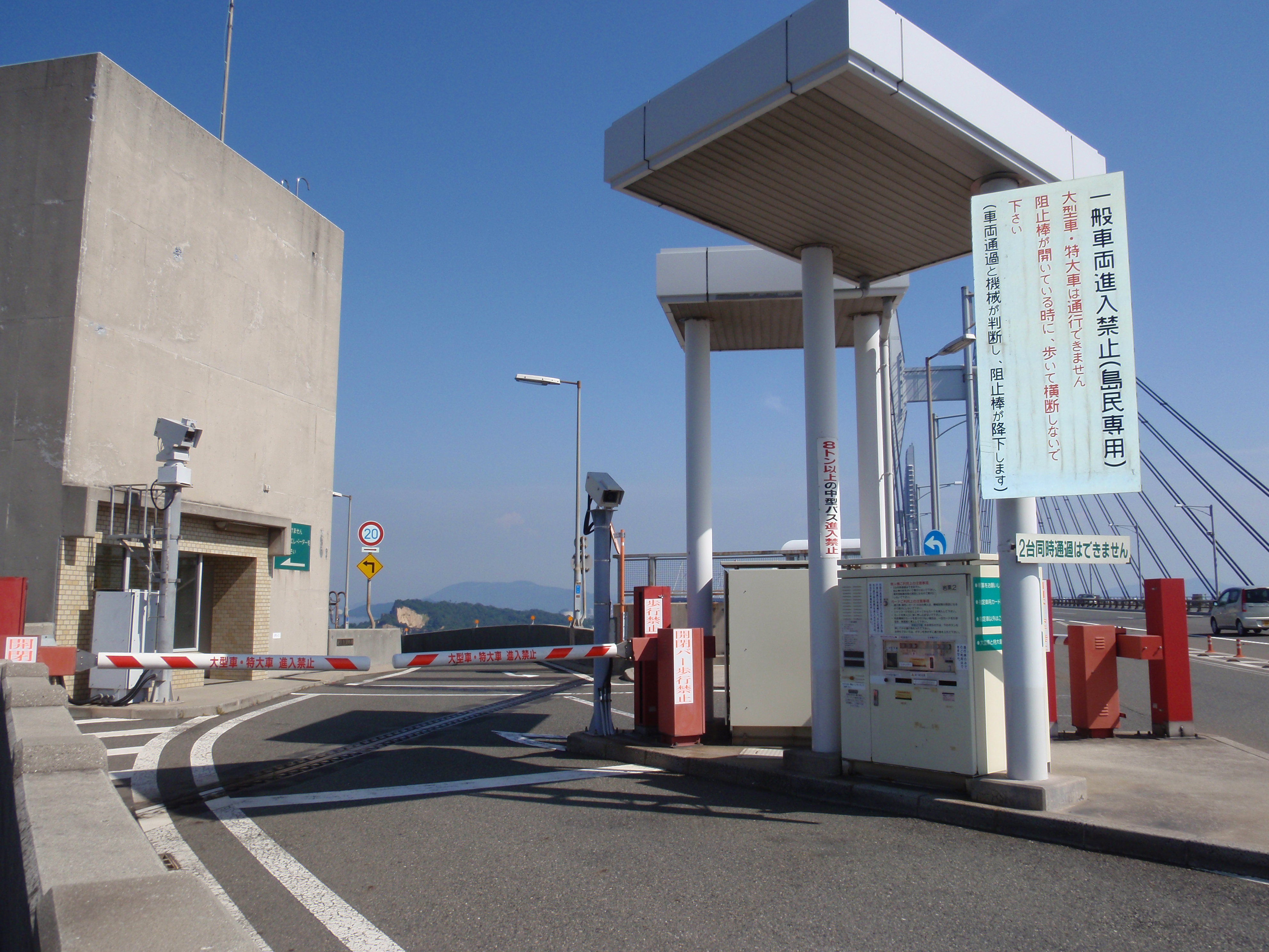 Iwakurojima Interchange